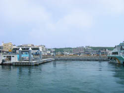 Nanhu Port, Cimei, Penghu, Taiwan